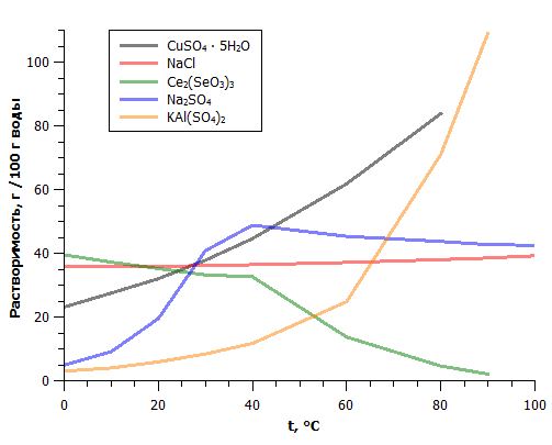 Salts Solubility vs Temperature. Data are taken from J. A. Dean. Lange's Handbook of Chemistry. 15th Ed., 1999.